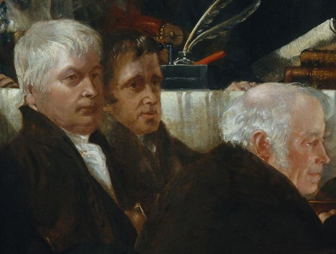 left to right:w:Samuel Gurney (1786–1856) Josiah Forster and William Allen (Quaker) at the British and Foreign Anti-Slavery Society in 1840. Note this is an extract from a much larger painting.